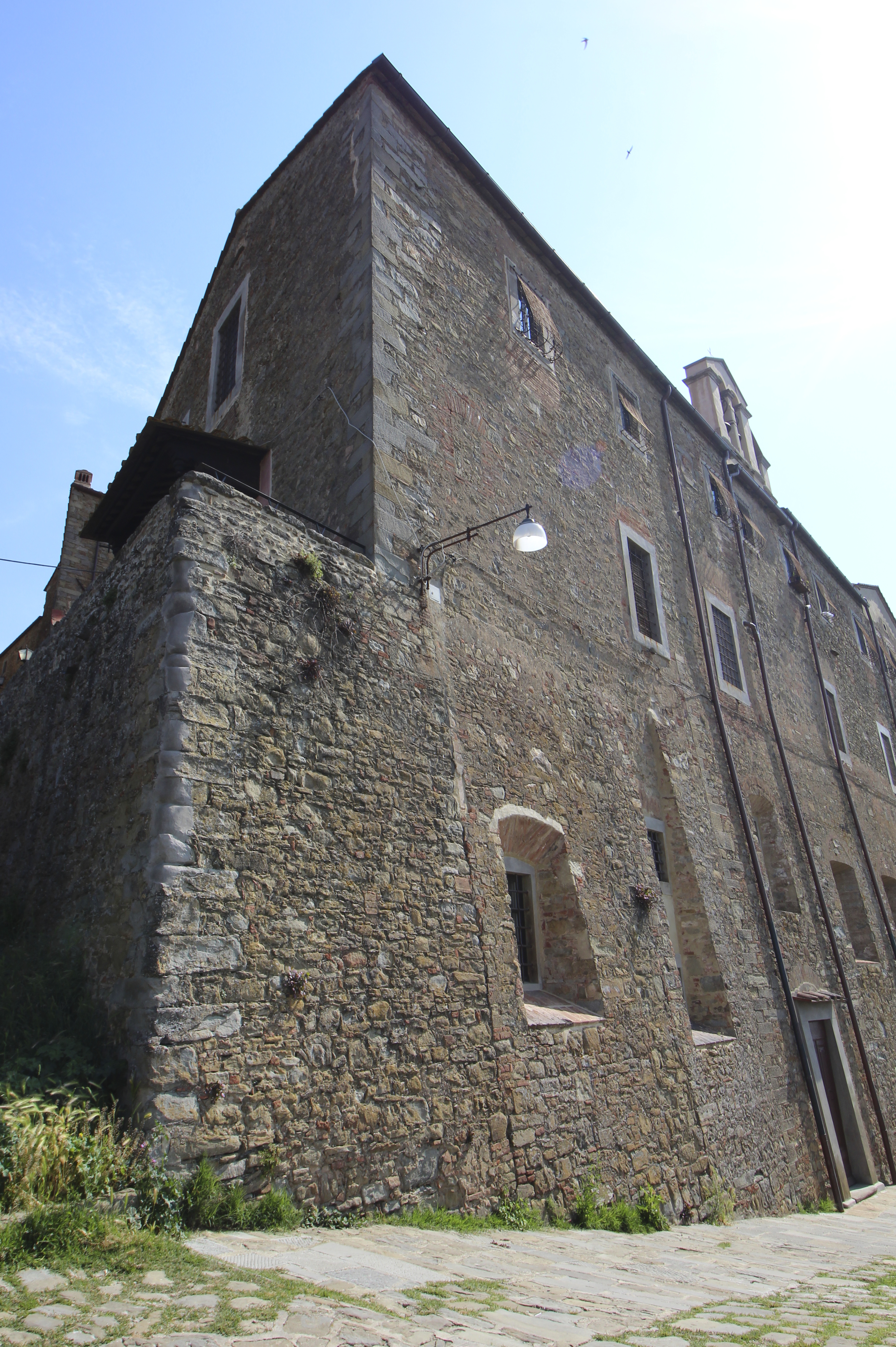 Church Santissima Trinità, historical center of Cortona, Province of Arezzo, Tuscany, Italy